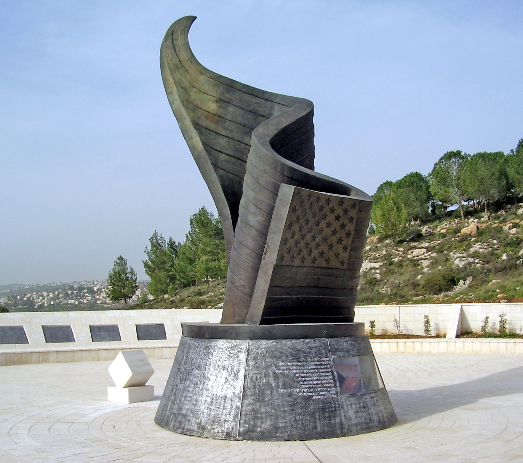 Memorial for the victims of the twin towers disaster, in emek ha'arazim (cedars valley) near jerusalem. Created by Eliezer Weishoff. אנדרטה בעמק הארזים, לנספים באסון מגדלי התאומים